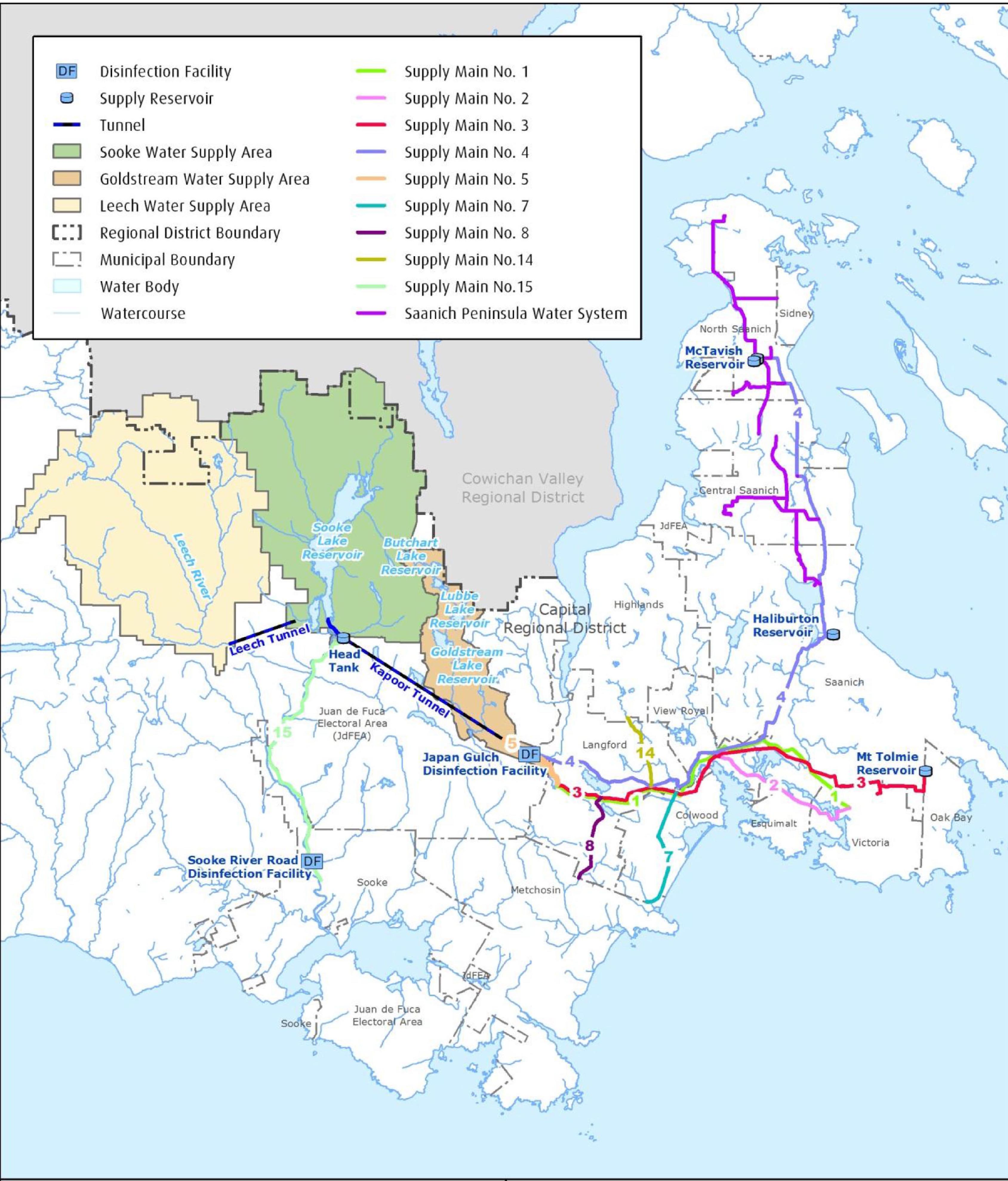 Current Regional Water Suppply (Courtesy of CRD Water)